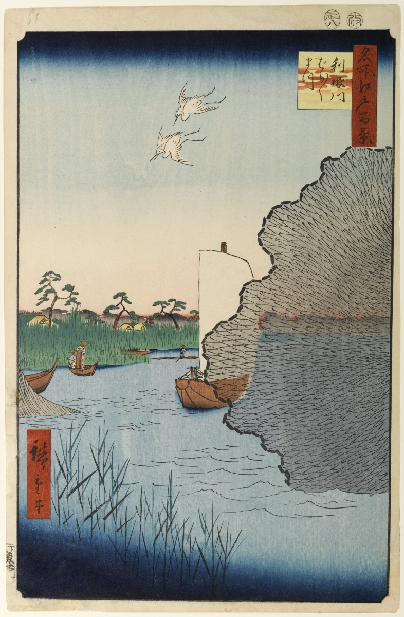 Part of the series One Hundred Famous Views of Edo, no. 071, part 2: Summer.